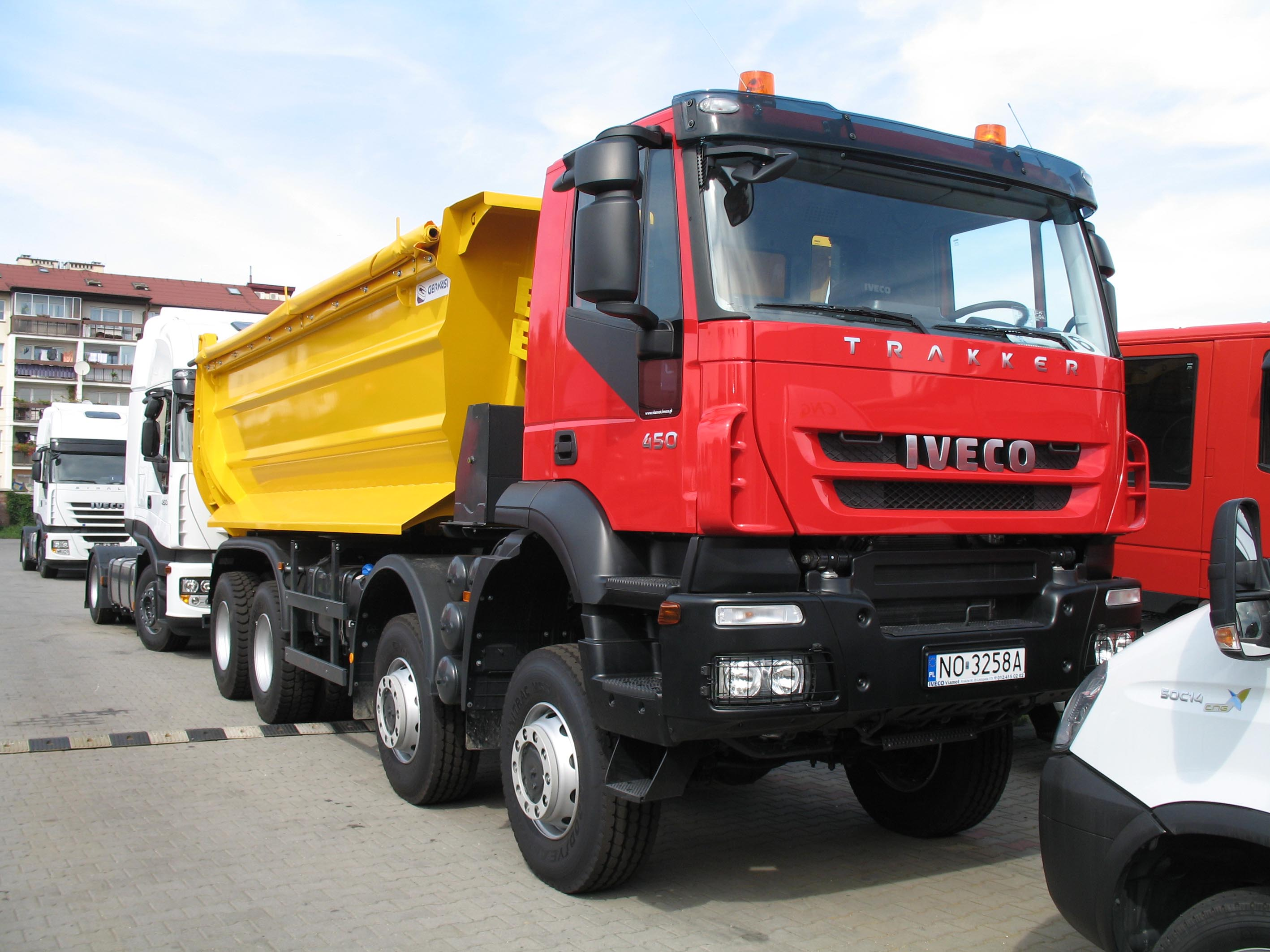 Iveco Trakker 450 dump truck in Kraków, Poland.